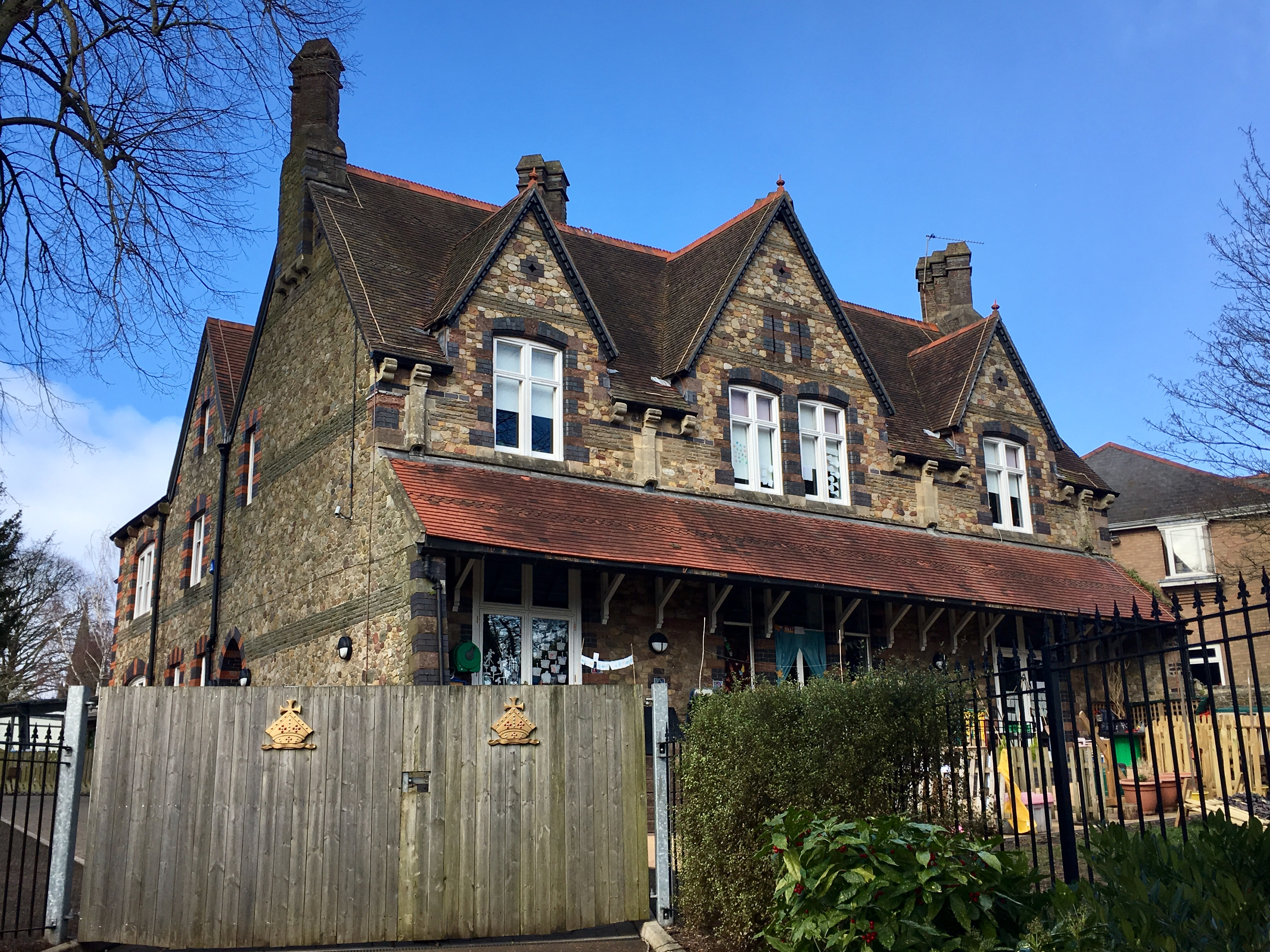 The Lodge Wikidata has entry Q29503606 with data related to this item.